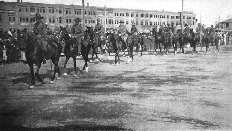 Regimental Headquarters on the march through Cairo, December 23rd, 1914